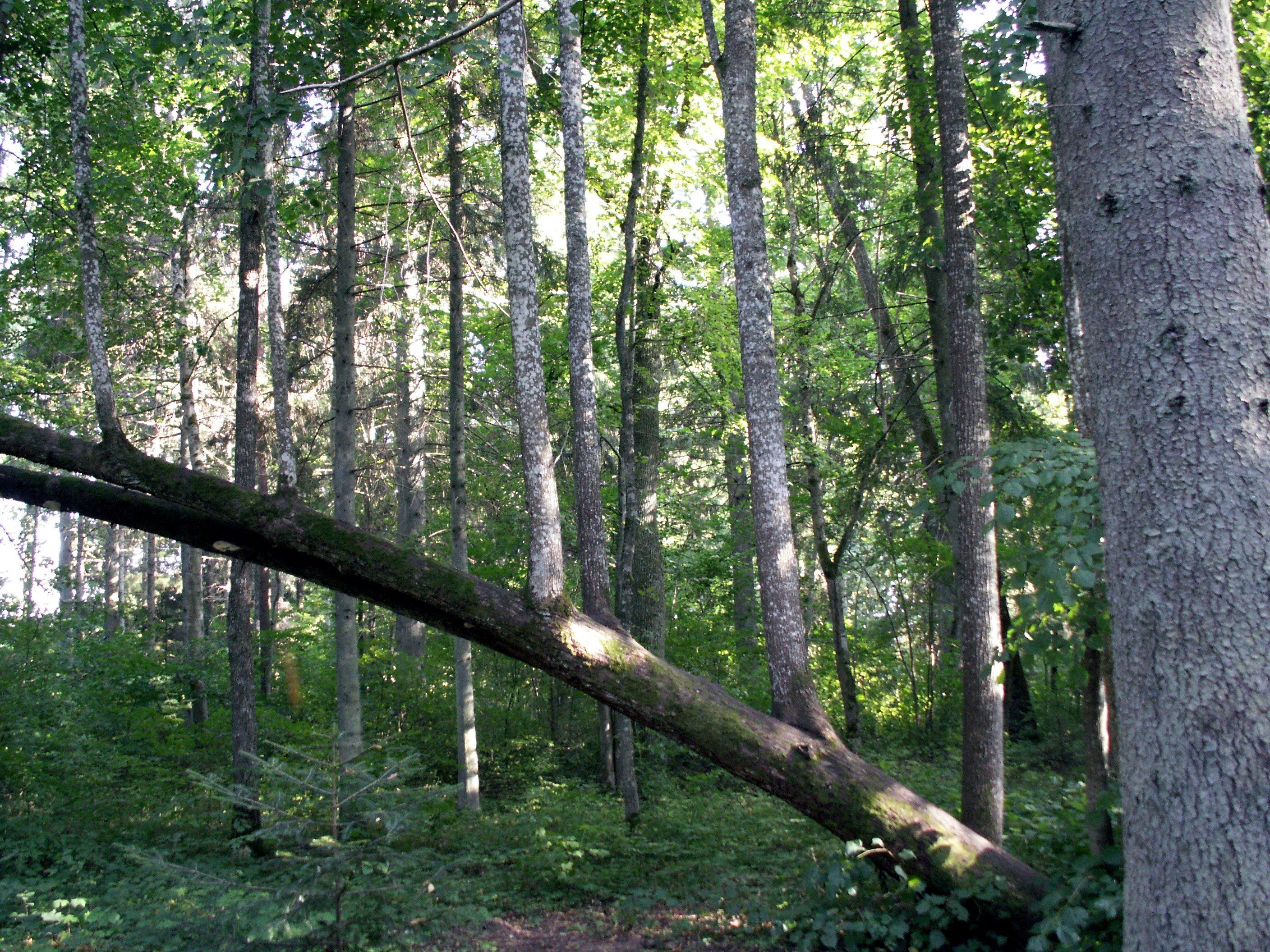 Renavas manor park in Mažeikiai district, Lithuania